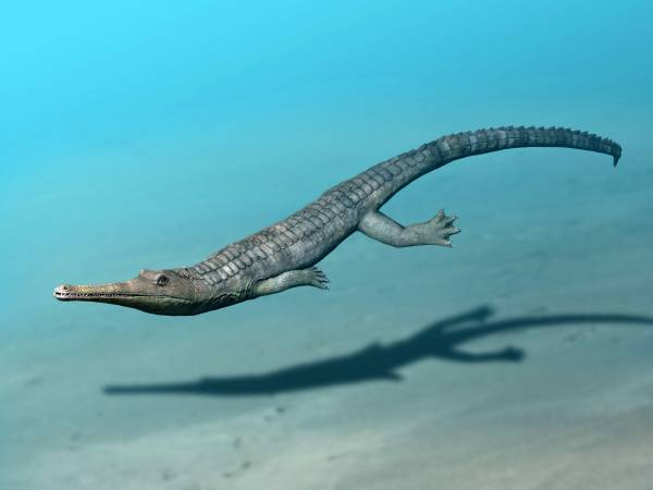 Steneosaurus bollensis